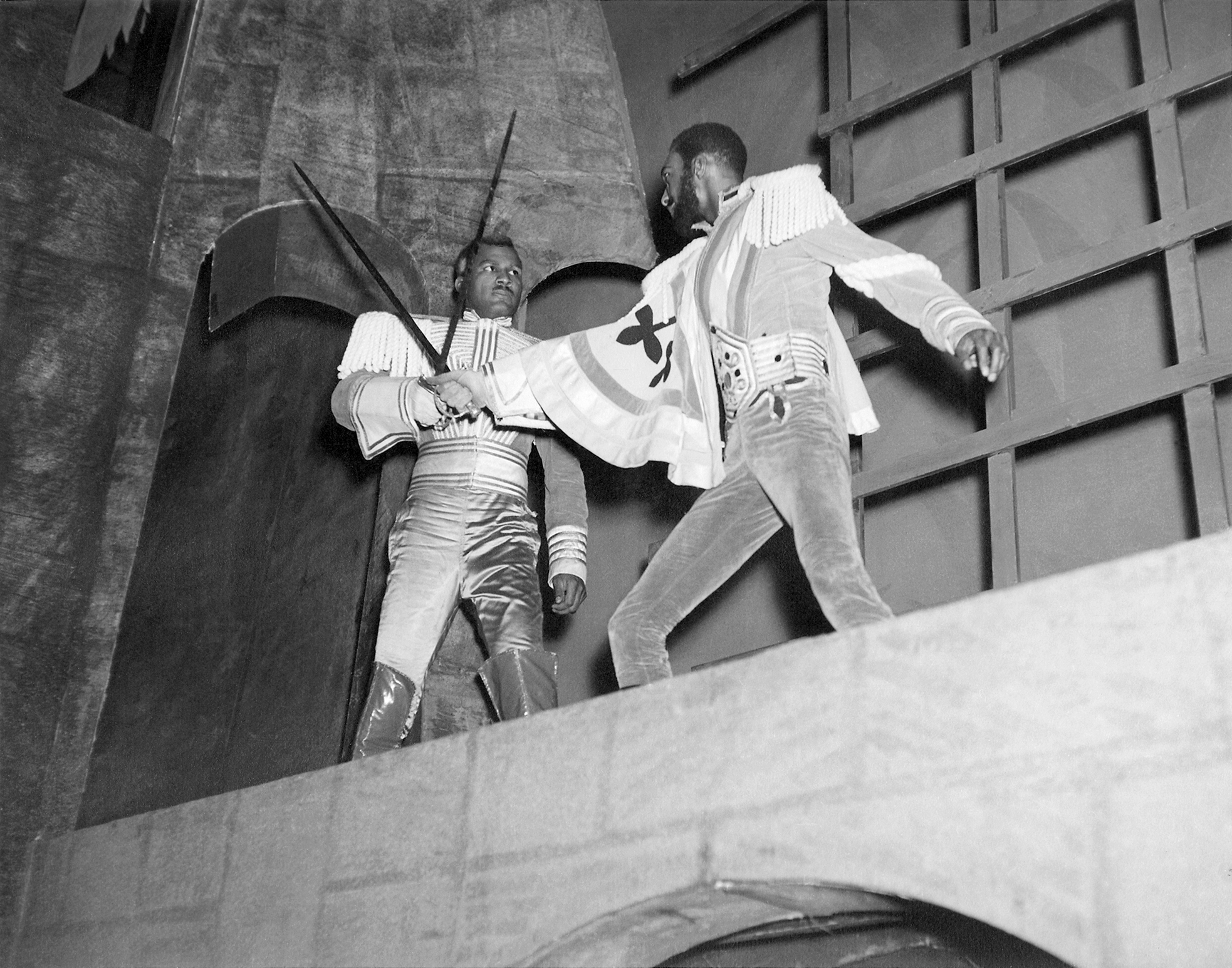 Photograph of Charles Collins (Macduff) and Maurice Ellis (Macbeth) in Act III, Scene 4, of the Federal Theatre Project production of Macbeth at the Lafayette Theatre